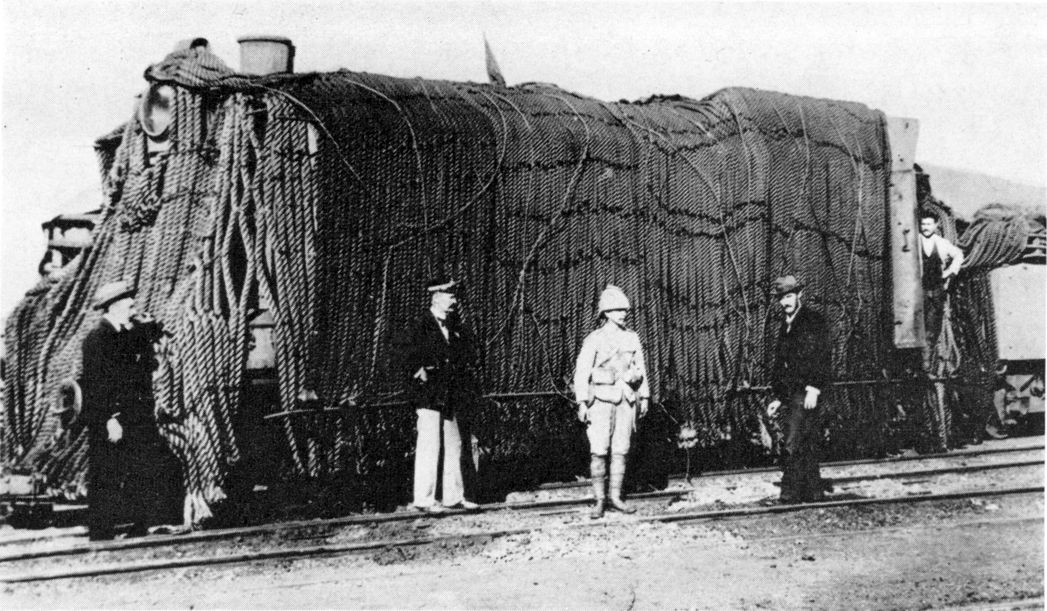 Natal Government Railways 4-6-2TT no. 48 “Havelock” disguised as Hairy Mary during the South African War